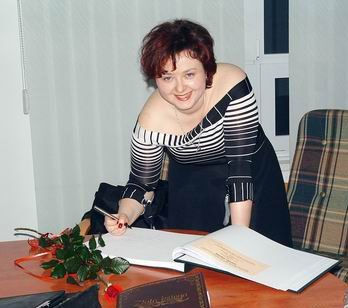 This image has been copied from the source with the permision of webmaster (and with the consent of the director of the service). The permission was granted to Stan Zurek (Zureks) via email from Mirosław Domański Justyna Stępień